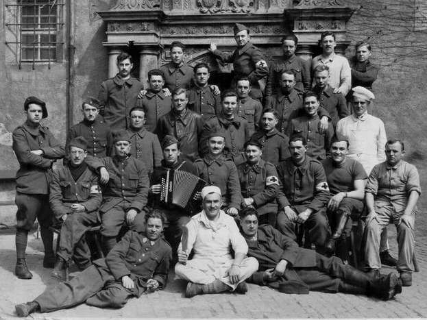 Photo of the orderlies from Oflag IV-C, Colditz Castle circa WW2. Son of the now deceased photographer/owner of image agreed to license to GFDL via email Bonjour Monsieur, J'accepte que vous utilisiez mes images sous le GFDL comme vous le demandez. Bien cordialement -- Philippe Pallu